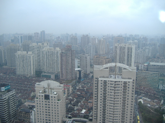 Typical apartments in Shanghai, China. Photo was taken by Catherine Roy in March 2007.